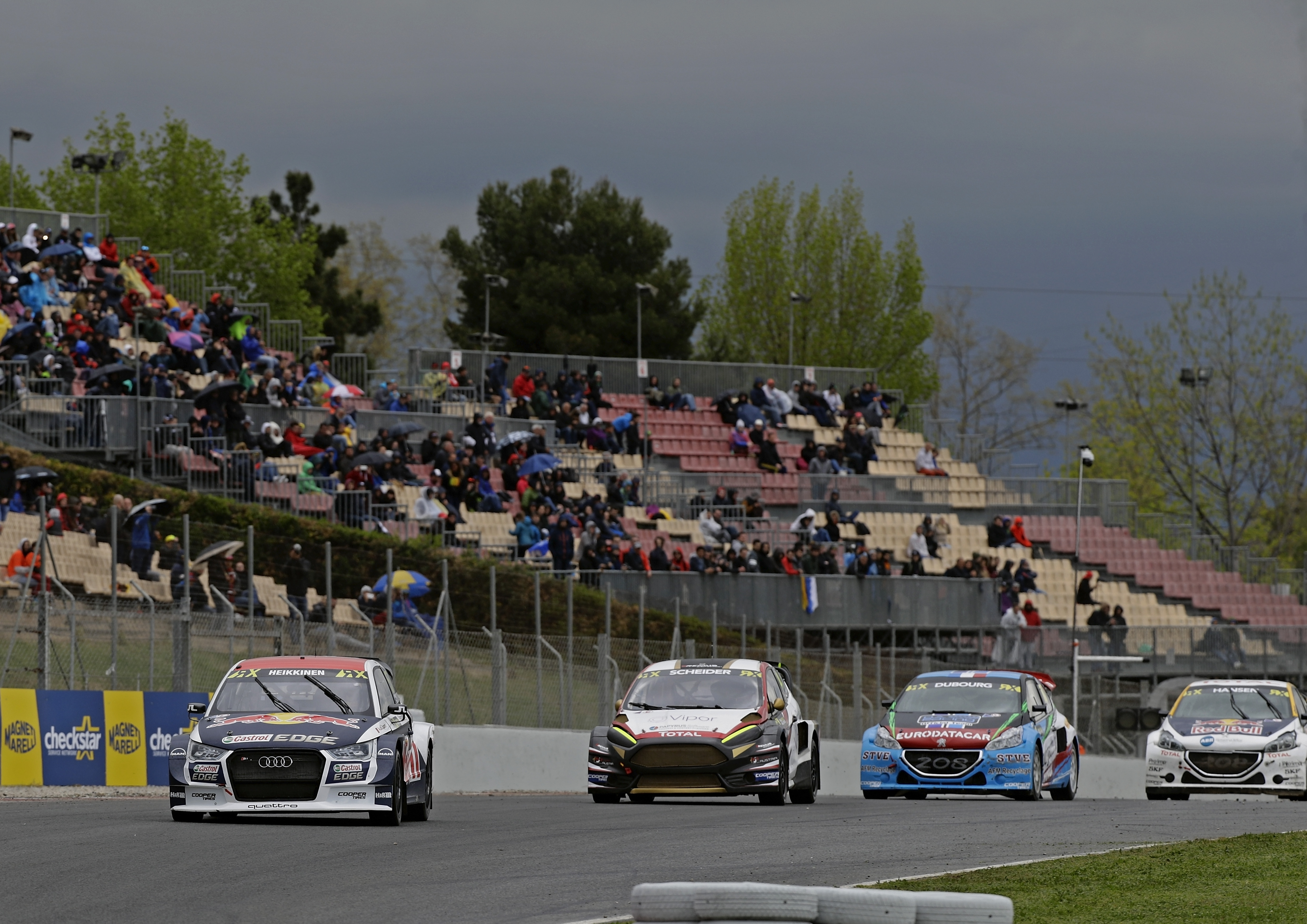 2017 FIA World Rallycross Championship // Round 01, Barcelona // Credit: EKS/Bodo Kraehling